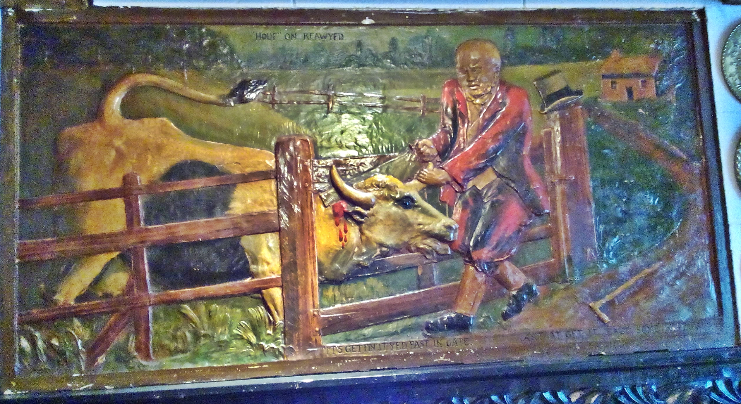 Farmer cutting off cow's head to save gate. Waggon and Horses, Chorley Road